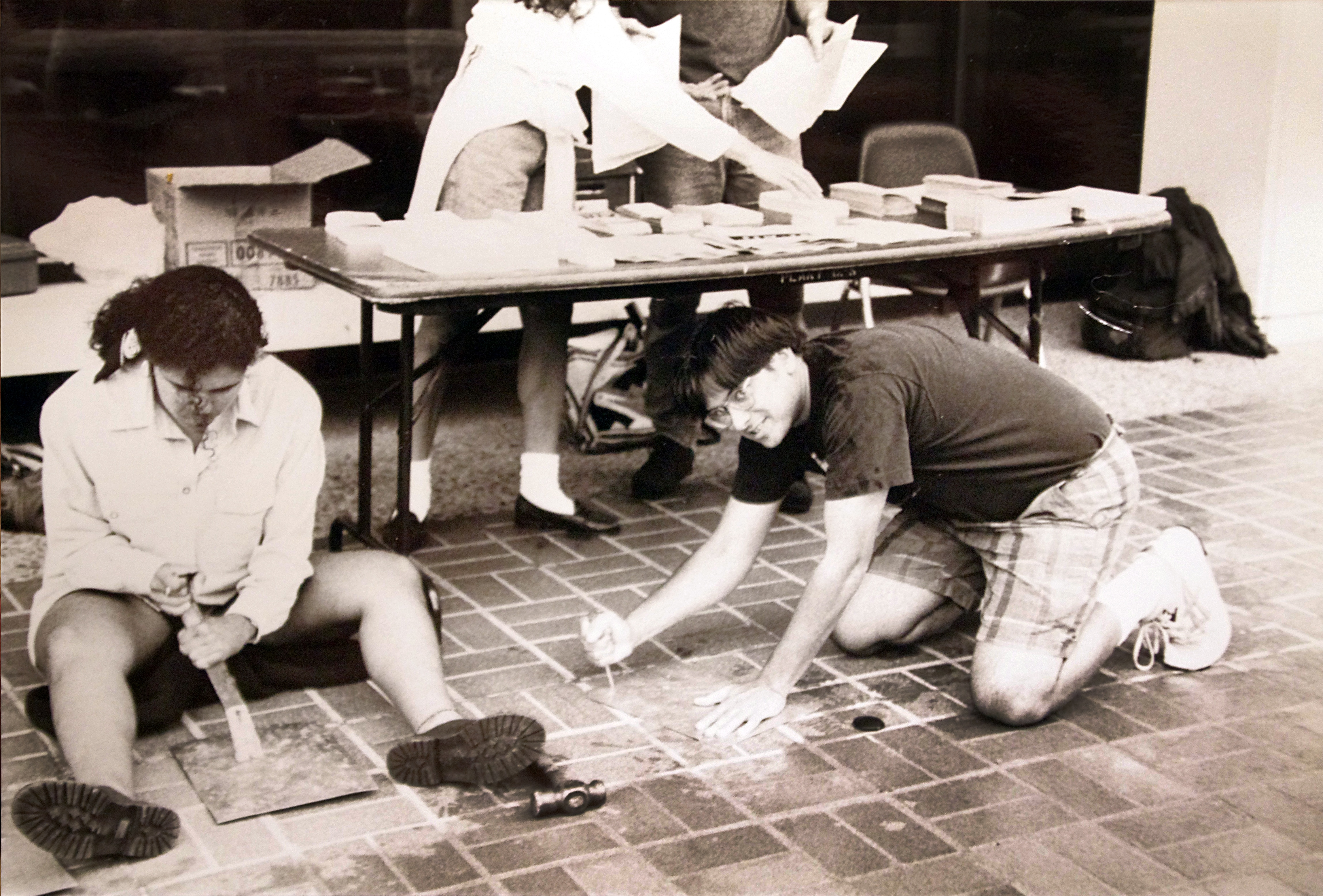 IMGP2162 Making an AIDS memorial quilt panel on behalf of Associated Students, Inc. (ASI) Fresno State 1994